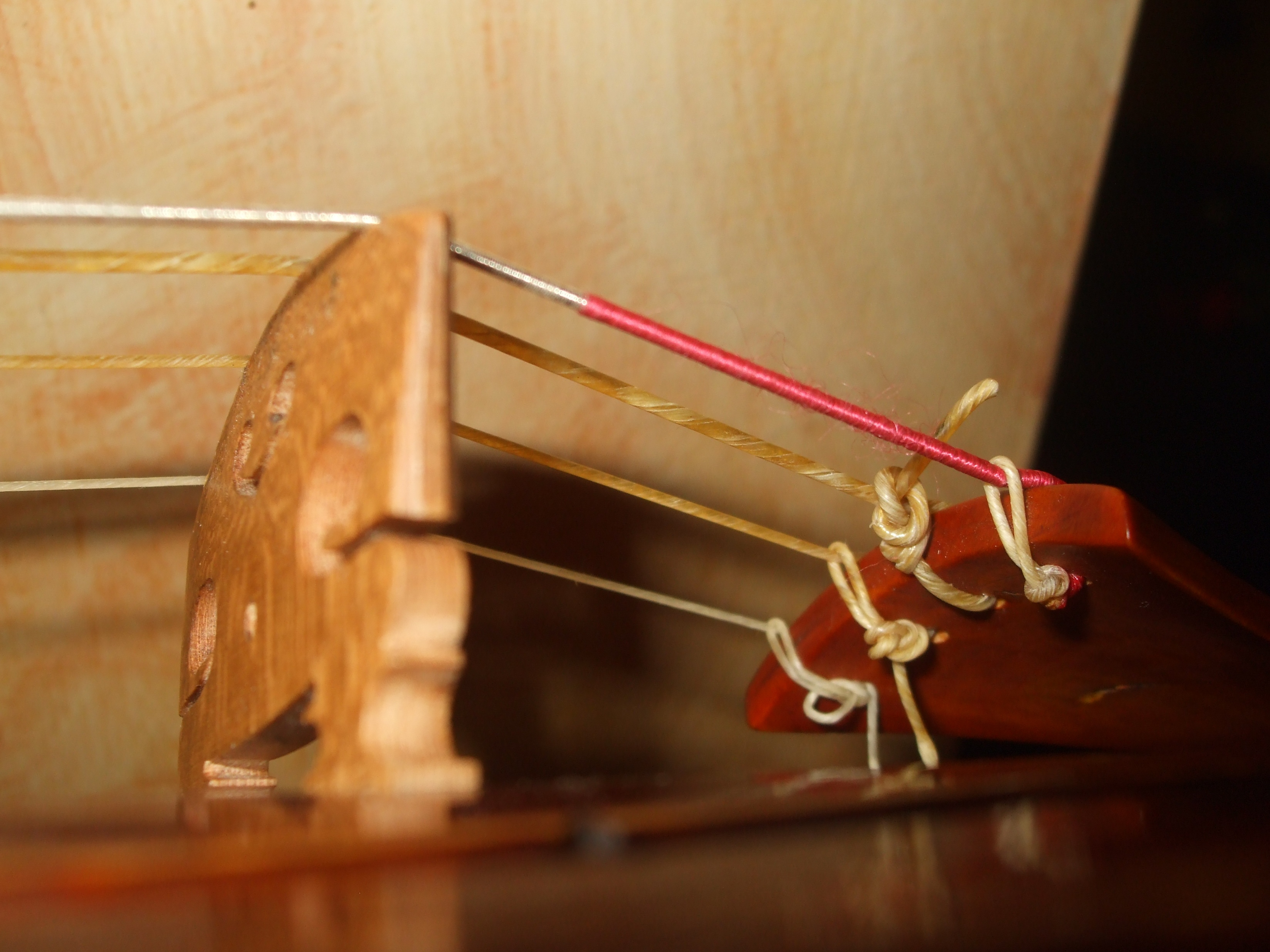 Detail of the gut strings of a classic violin